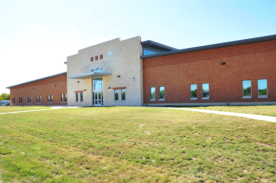 Tri-Service Research Laboratory at Brooke Army Medical Center in San Antonio, Texas